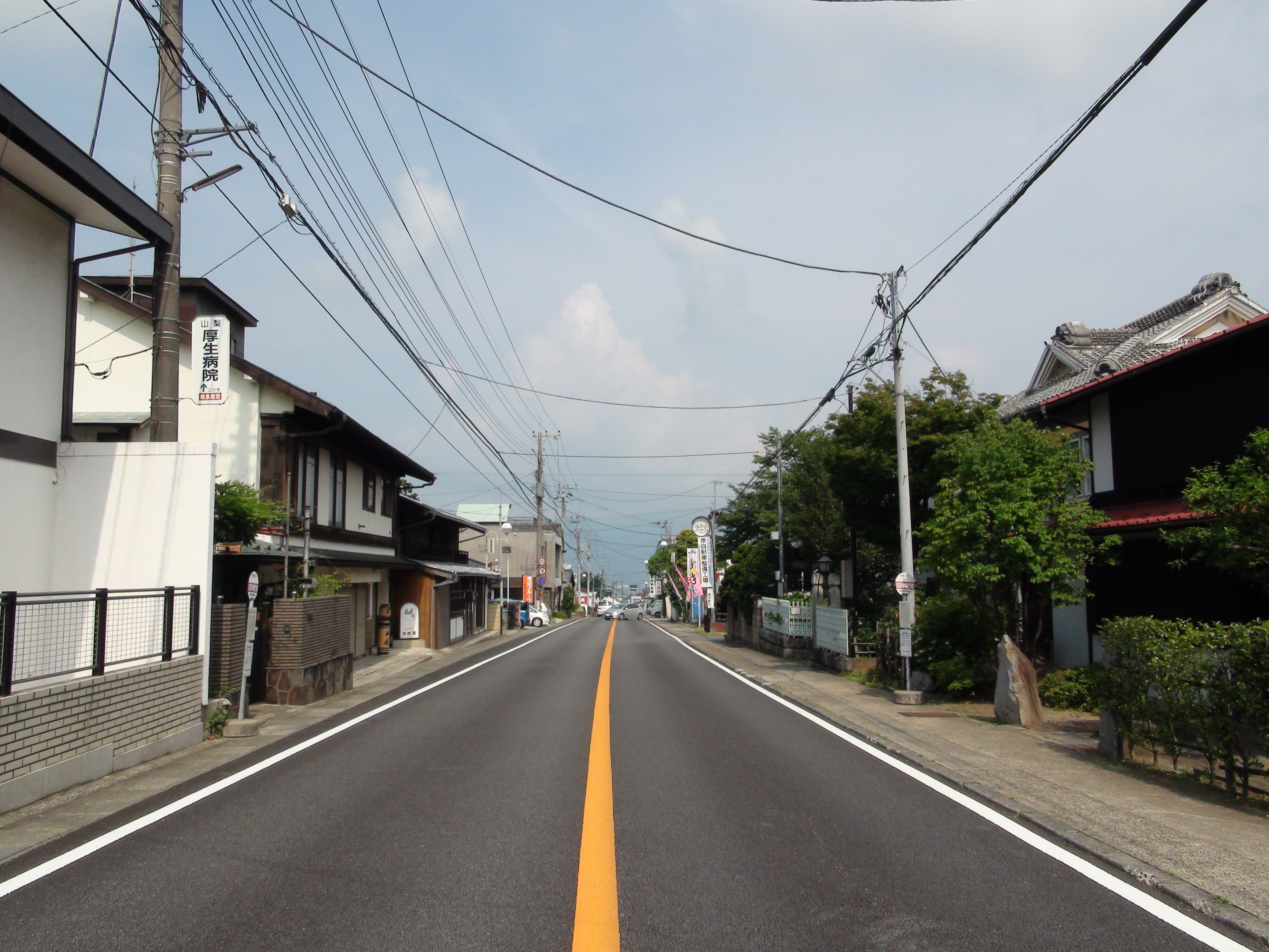 The Katsunuma-juku was a station of the Kōshū Kaidō